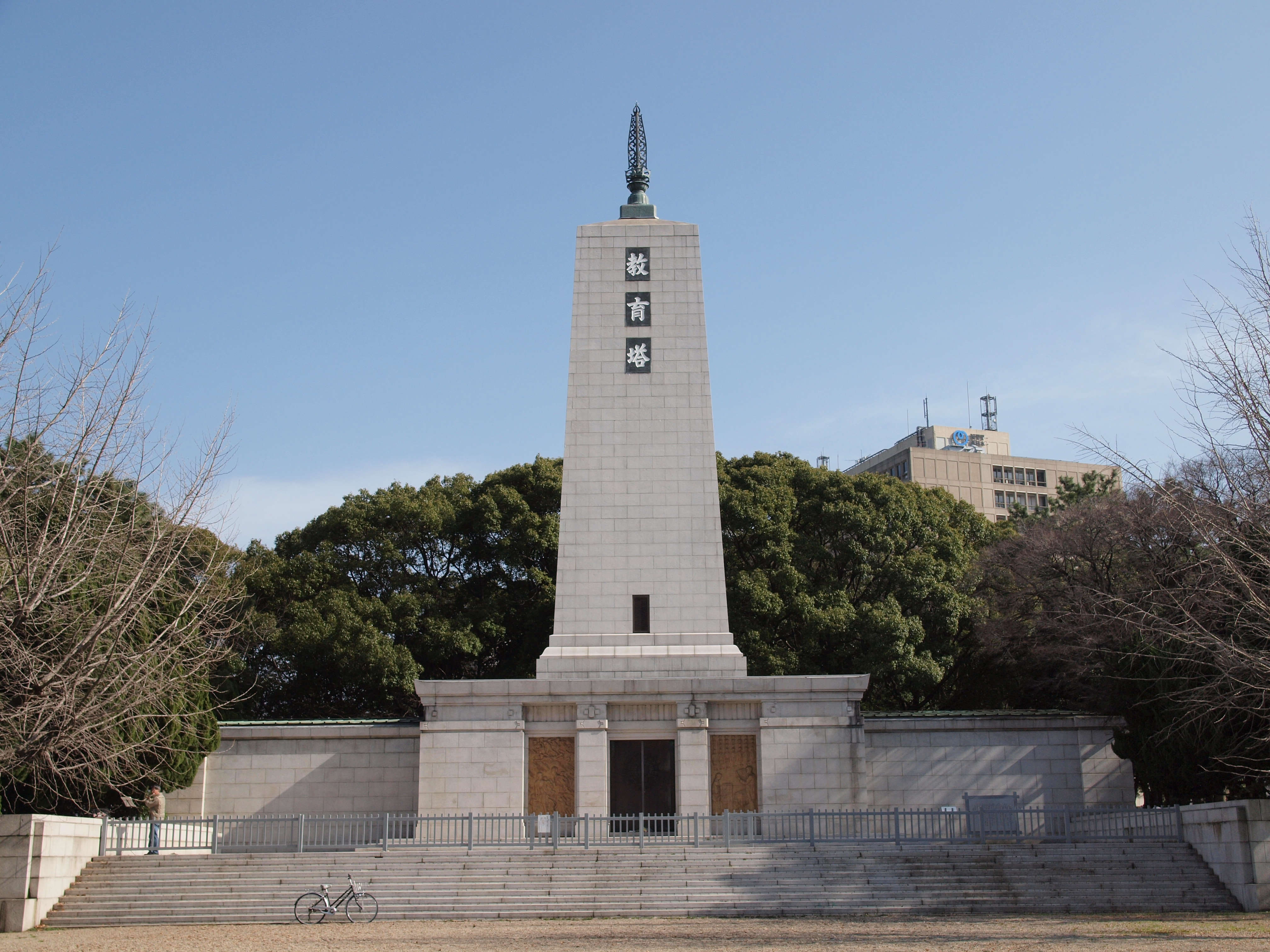 Kyouikutou (Tower) in Chuo, Osaka